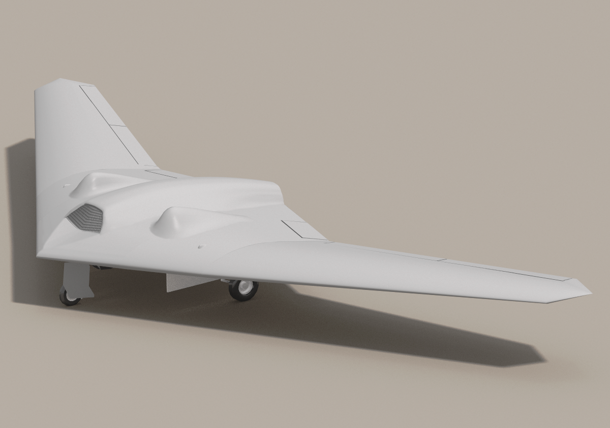 Original illustration by me using 3d applications and basic photogrammetry techniques from the only four, (primarily two), low-resolution photographs publicly available at time of completion. Created to illustrate the RQ-170 Sentinel article in the English Wikipedia. The article image is in PNG format rather than SVG because it is a 3D-rendering, not vector-based artwork. Applications used: 3d Studio MAX; Bryce 3D; Corel PhotoPaint; IrfanView. The following is an image link to show how my model lines up with a lesser known photo of the RQ-170. (shown "back-to-back") [NEW: ] The model with the other photo, the one from Liberation's blog... [NEW: ] Photo #3 Photo #2 UPDATE January 14, 2010: New photo, resulted in modification of this file, published in February 2010 issue of Combat Aircraft Monthly (UK) When magazine and its photo series are available, will update further. UPDATE March 6, 2010: Model & rendering updated per series of new photographs published in the February 2010 Combat Aircraft Monthly (UK). Notably, stealth point of intake top surface was not there as expected. Control surfaces have been added. Instrument ports are just visible behind nose-gear. Top surfaces of inner wing and fuselage are higher...etc. UPDATE January 28, 2012: Model updated per new photographs and video stills from Iranian state media. Central fuselage hump lowered. Jet engine intake reshaped and grill added. Wing "humps" reshaped... For more see "Comment" below.